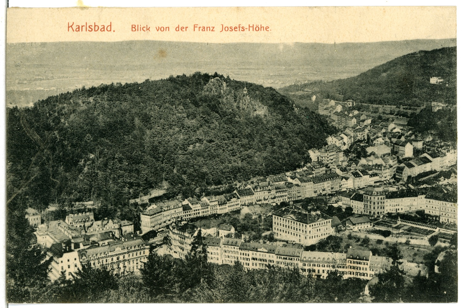 This postcard is from publisher Brück & Sohn in Meißen ( This postcard has a unique number 06892 and is available in a higher resolution at the publisher. This images was uploaded in a cooperation project between Wikipedians and the publisher.